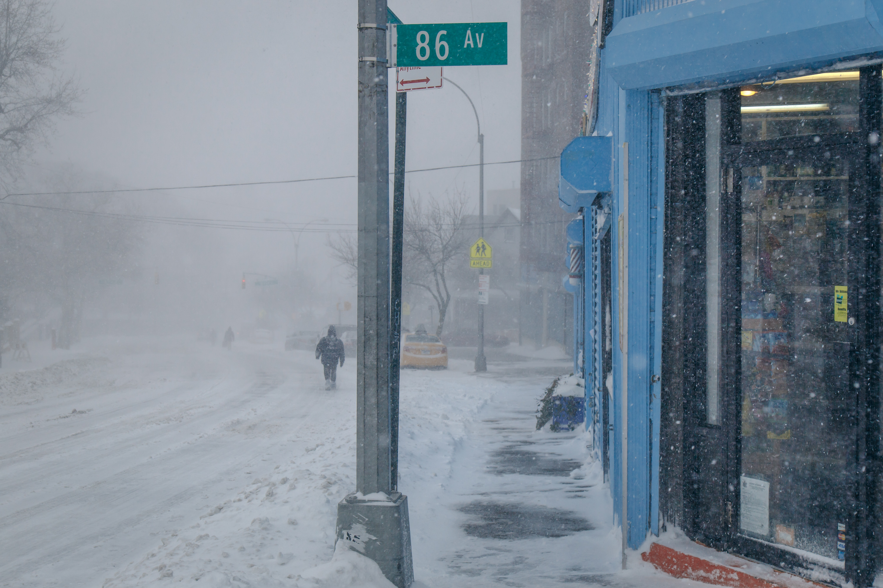 Effects of the January 2016 blizzard in Queens, New York.